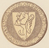 Seal of Duchess Ingeborg Eriksdatter of Norway (to Sweden), based on eight documents, dated 1318–44. Text: "✠ INGIBVRGHIS : DEI : GRACIA ⋅ DVCISSE ⋅ ZWEVORVM". Size: 36 mm.